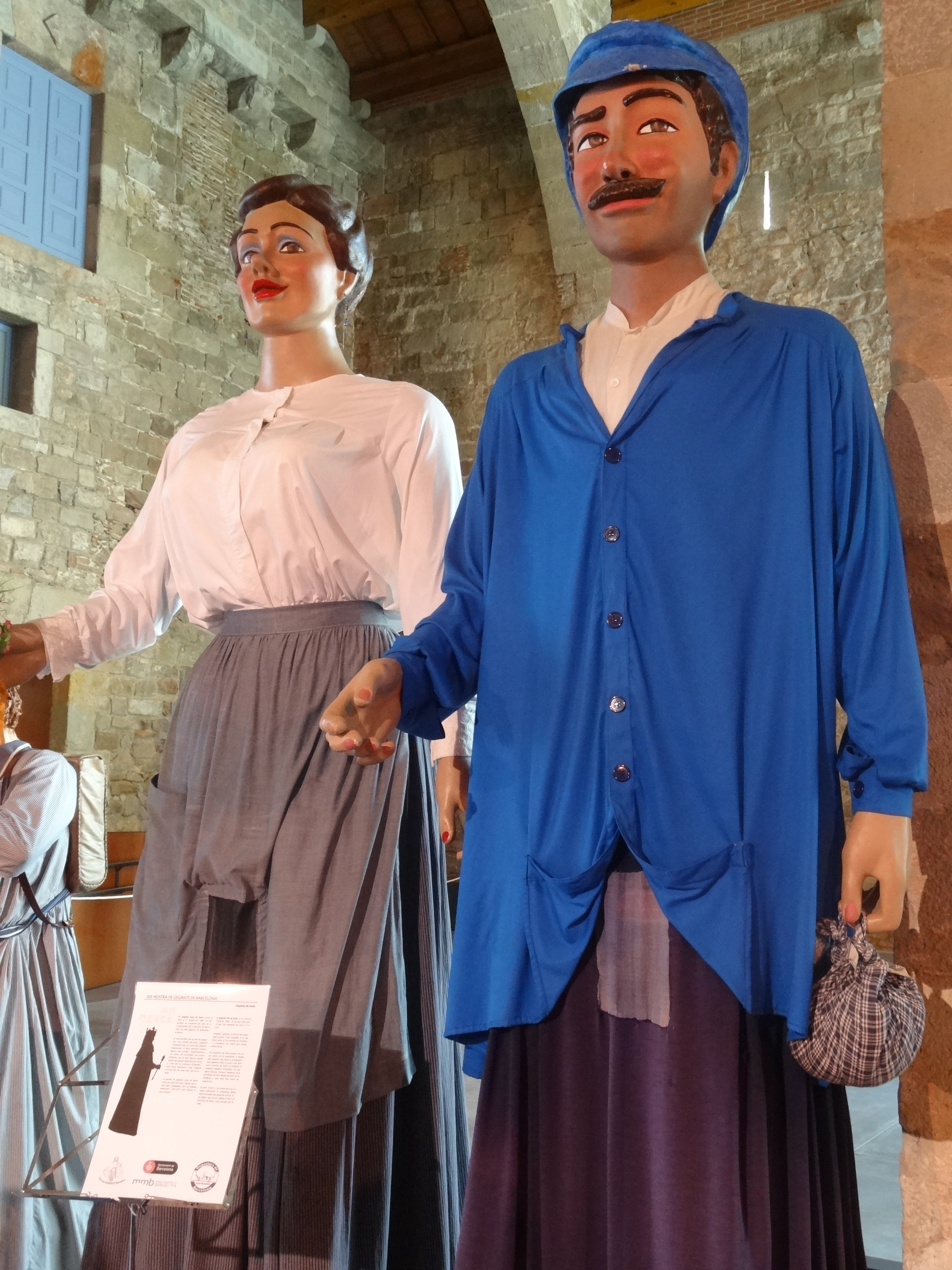 Exhibition of Giants at the Museu Marítim, Barcelona, 2013.